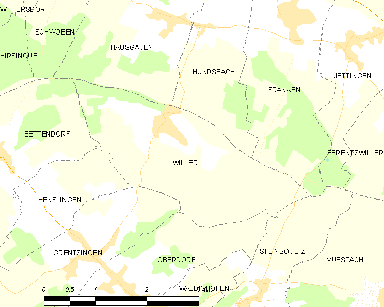 Map of French municipality